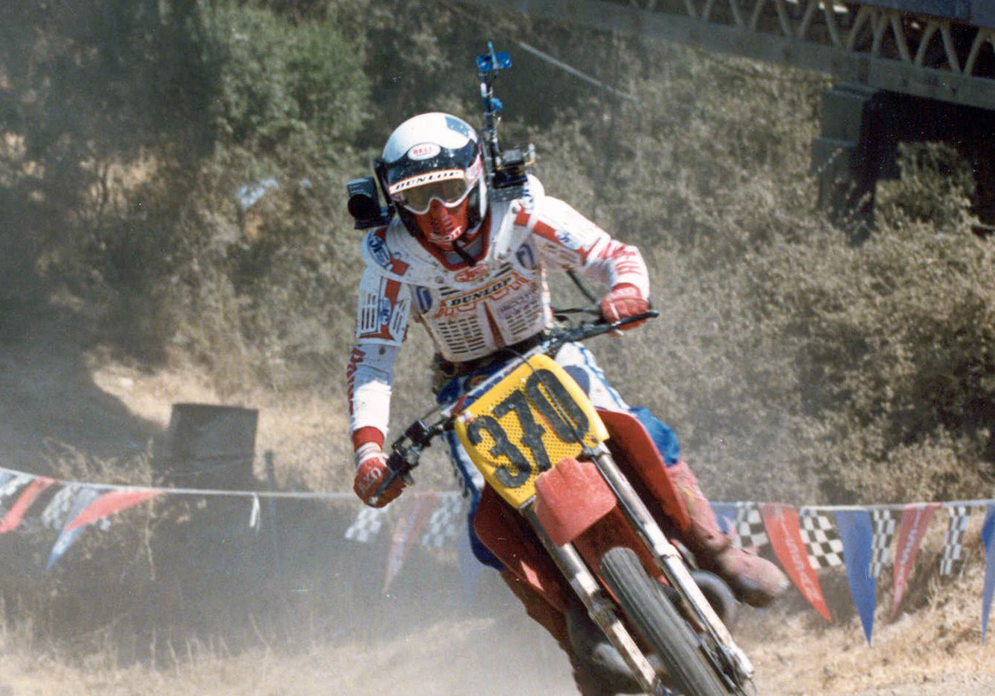 The first documented helmet camera was a Canon CI-10 camera mounted to the side of Dick Gracia's helmet by Aerial Video Systems (AVS) of Burbank, CA at the Nissan USGP 500 World Championship at Carlsbad Raceway in Carlsbad, CA on June 28, 1986. Not only was this the first time the helmet camera was used, but AVS transmitted the images from this camera live via portable microwave to the ABC broadcast truck to integrate into their live broadcast. This revolutionary system offered the viewers an unprecedented perspective of the race as it unfolded.)